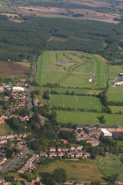 Market Rasen: De Aston School and the Racecourse (aerial)